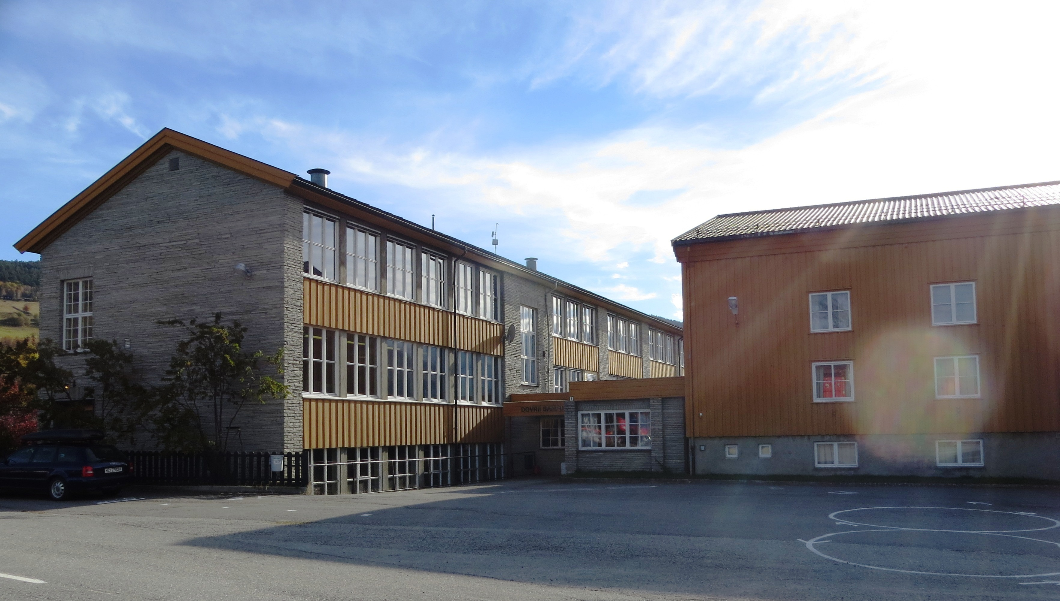 The chool in Dovre township, municipality of dovre - Oppland county in Norway.